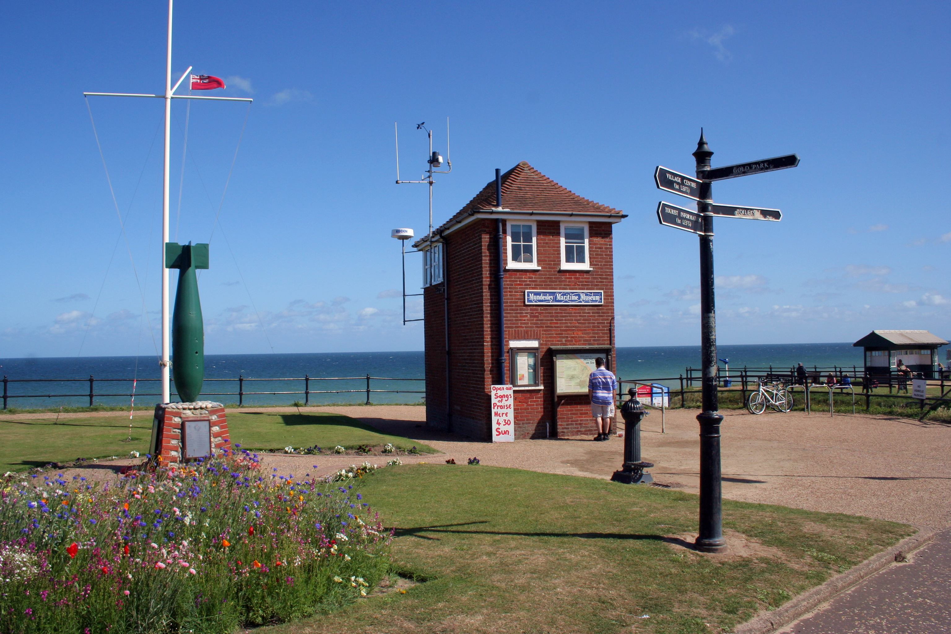 Coastwatch lookout and Mundesley Maritime Museum in August 2013.